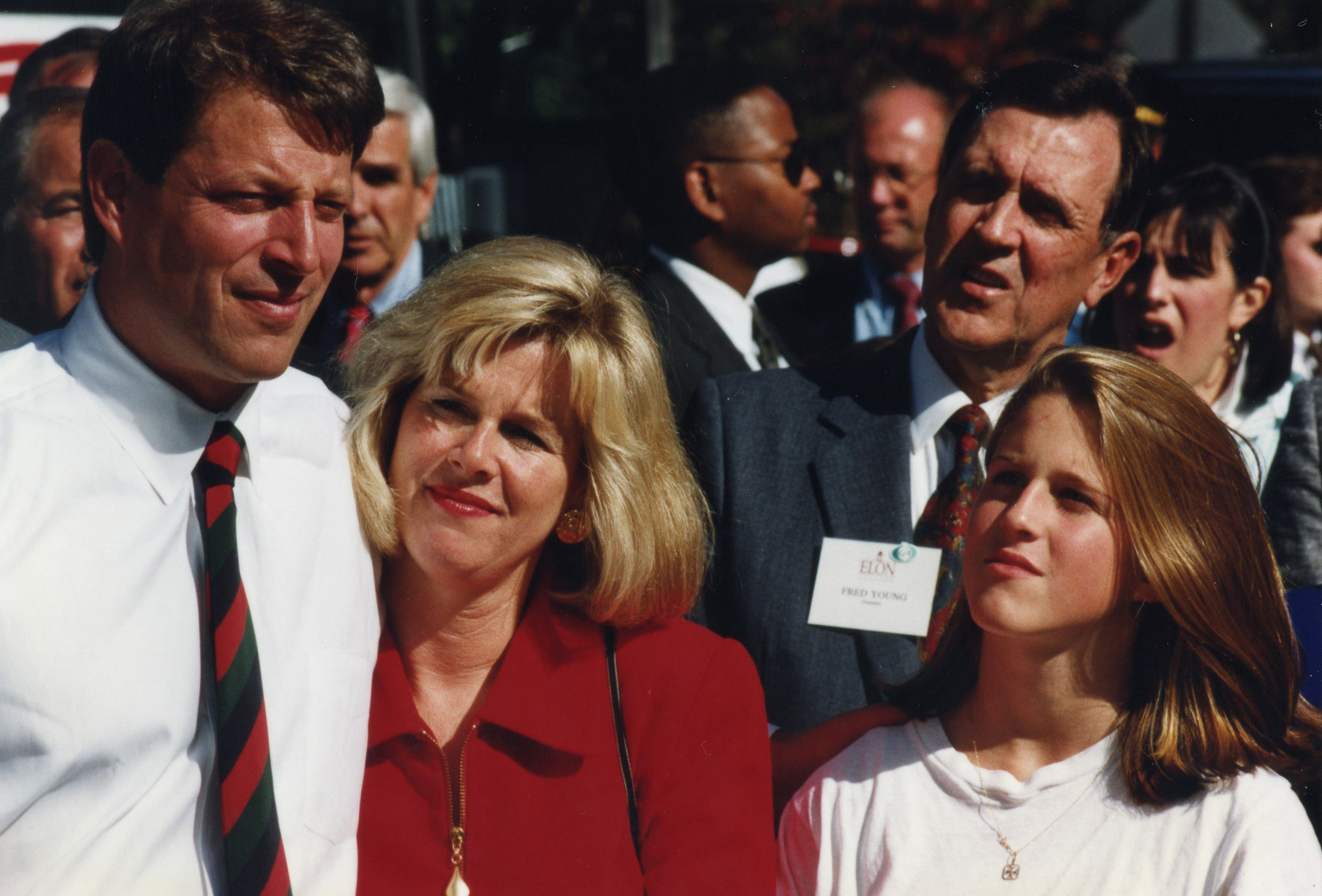 Vice Presidential candidate Al Gore stands with his wife Tipper and daughter during a campaign stop in North Carolina. October 26, 1992.